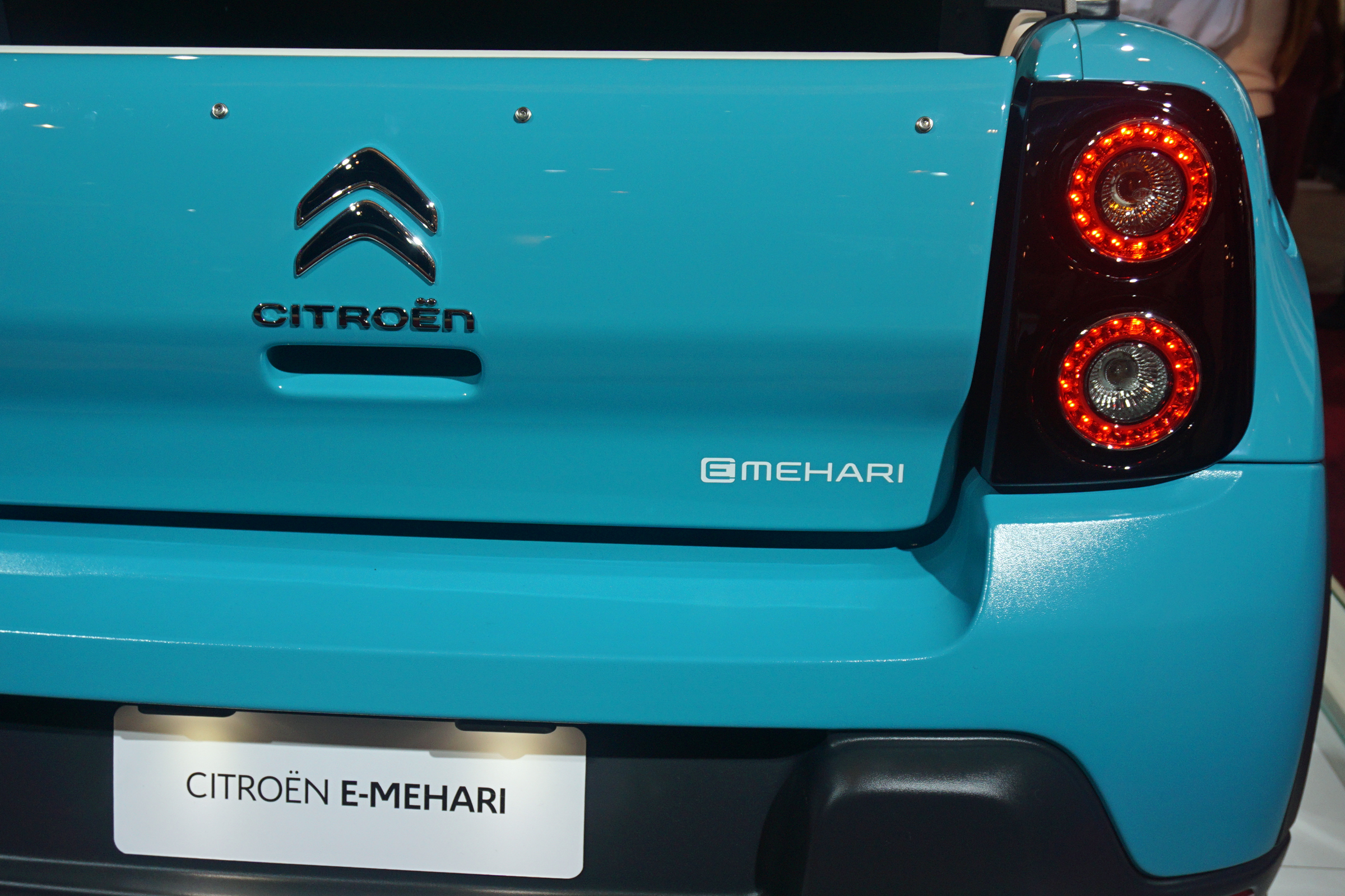 Citroën E-Mehari all-electric car exhibited at the Salão Internacional do Automóvel 2016 São Paulo, Brazil.